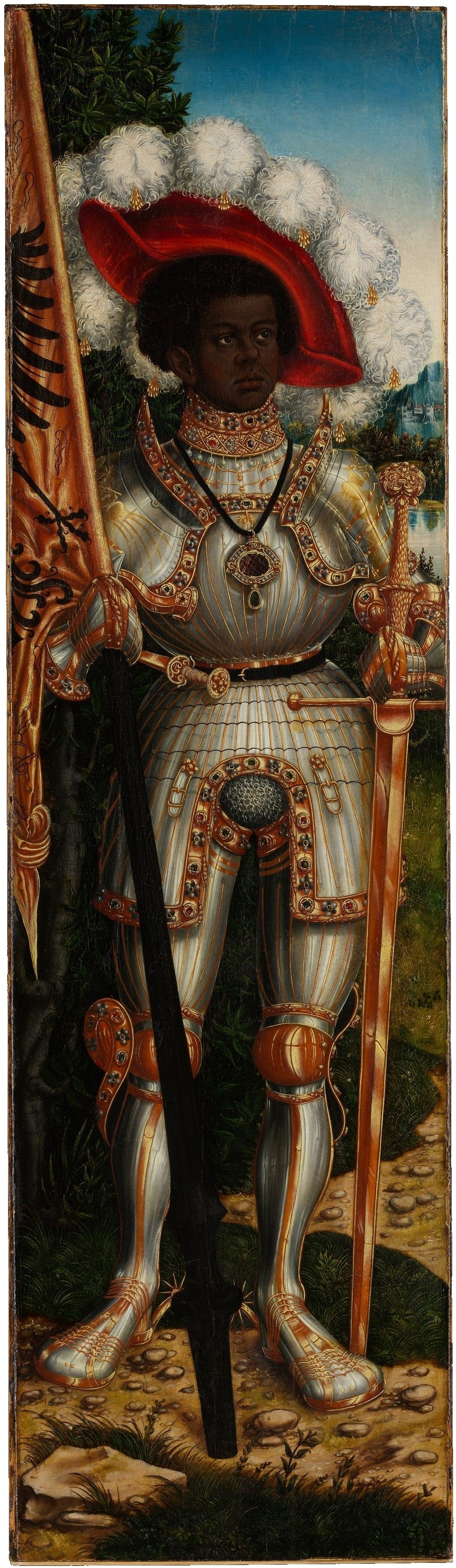 Originally the left wing of an altarpiece